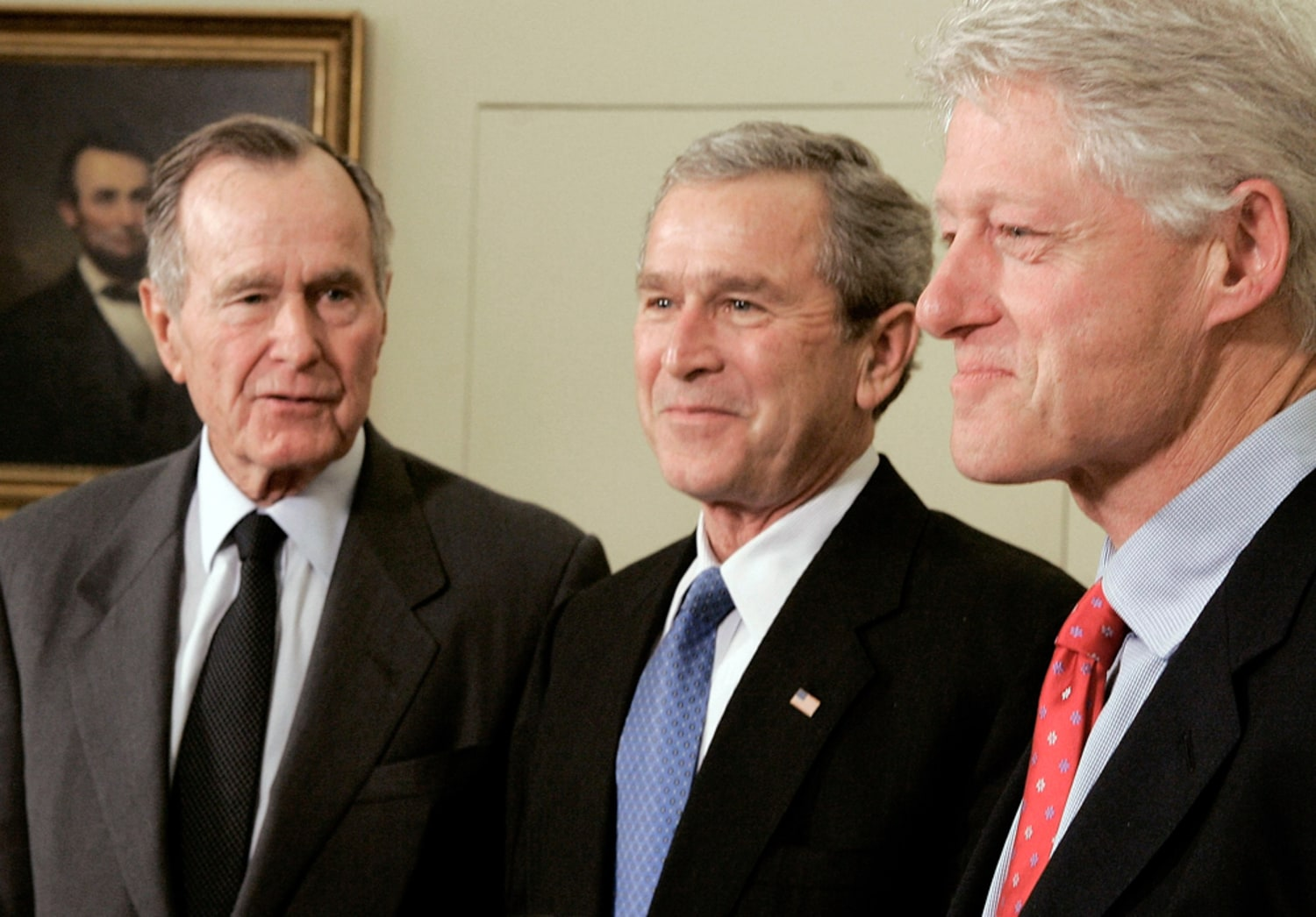 Description: Former President George H. W. Bush, left, and former President Bill Clinton, right, join President George W. Bush in the Oval Office Tuesday, March 8, 2005 to report on their recent tour of the tsunami devastated areas in Asia. Location: The White House, Oval Office.